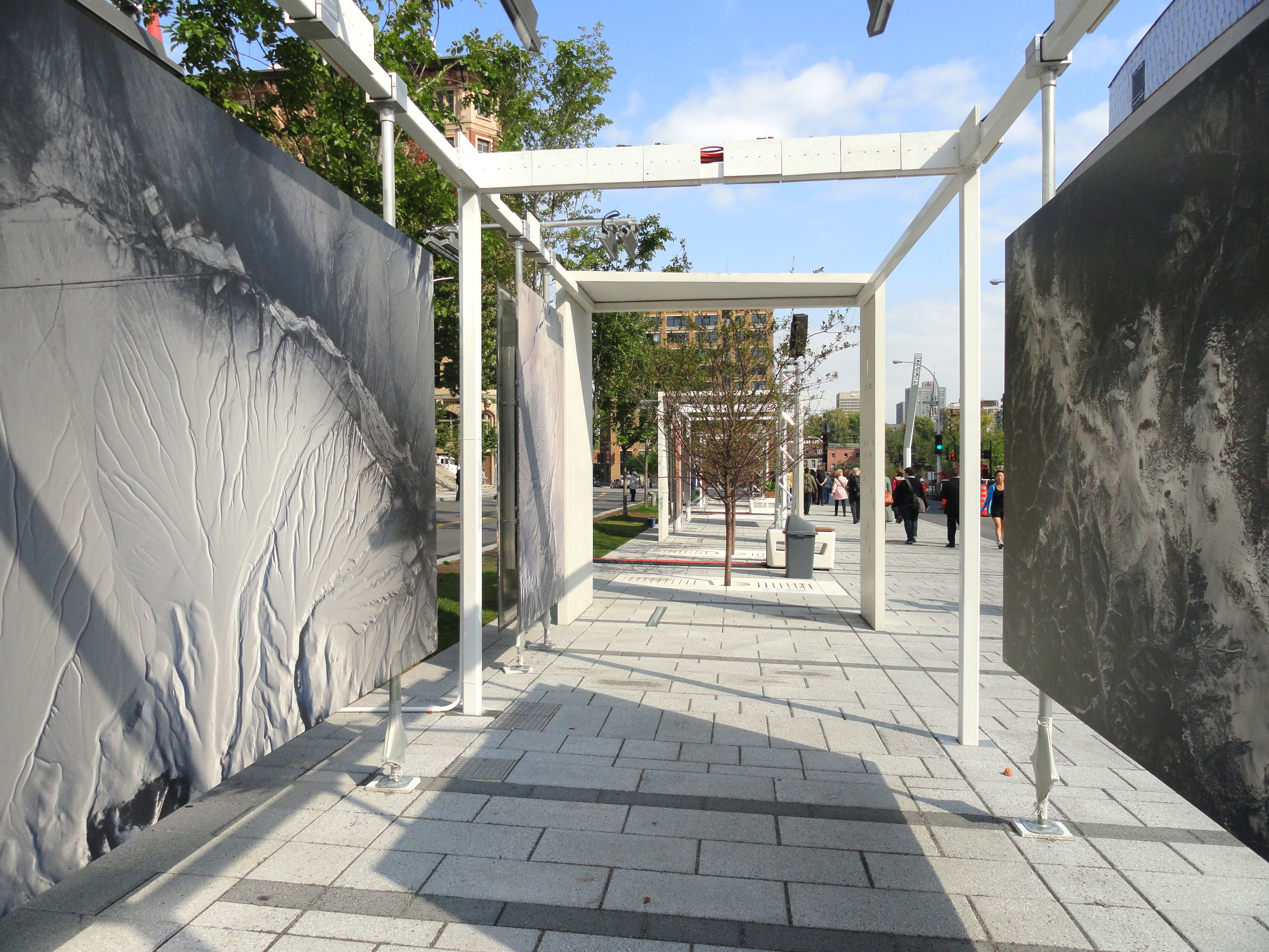 «Exposition GAÏA» on promenade des Artistes in Quartier des spectacles in Montreal en 2011.